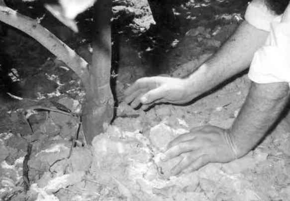 Citron tree inspections for Kashrut